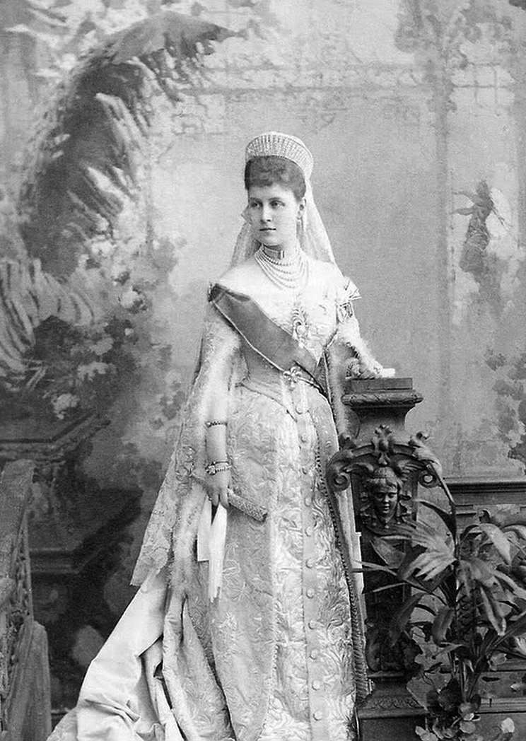 Grand Duchess Alexandra Georgievna (Alexandra of Greece)